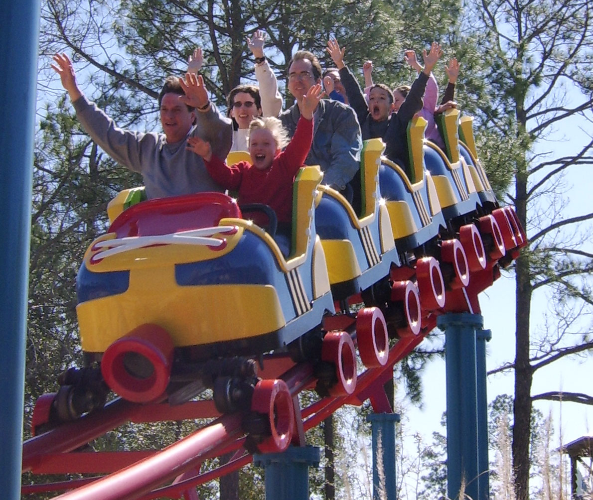 Ant Farm Express at Wild Adventures, a Vekoma Roller Skater roller coaster.